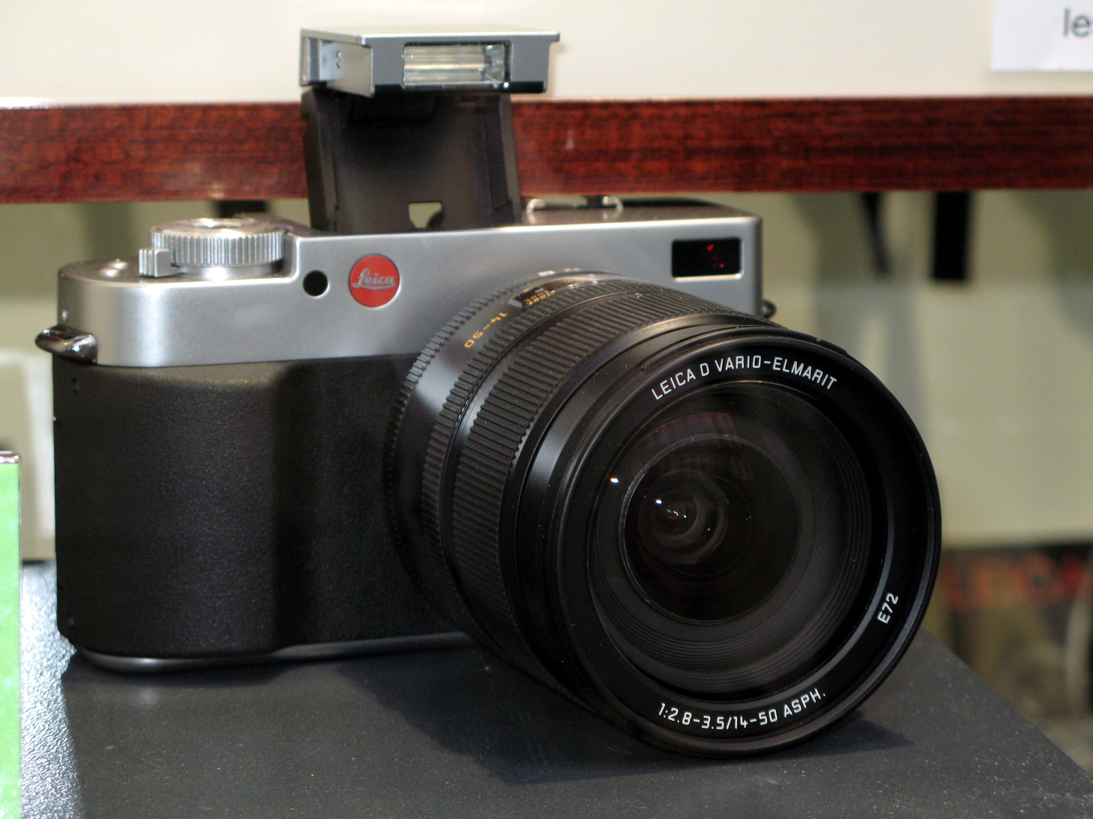 Leica Digilux 3 digital SLR camera